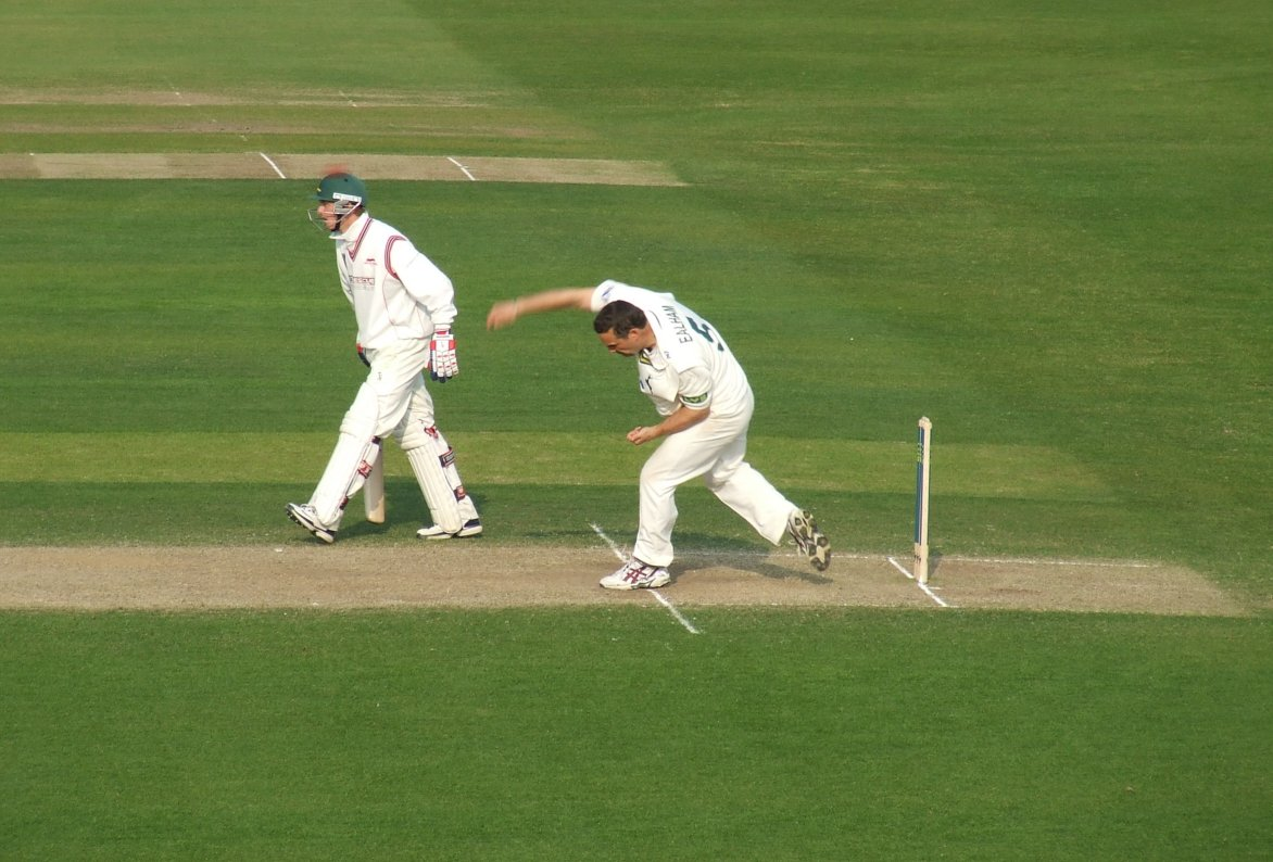 Mark Ealham bowls for Nottinghamshire in a County Championship match against Leicestershire at Trent Bridge.